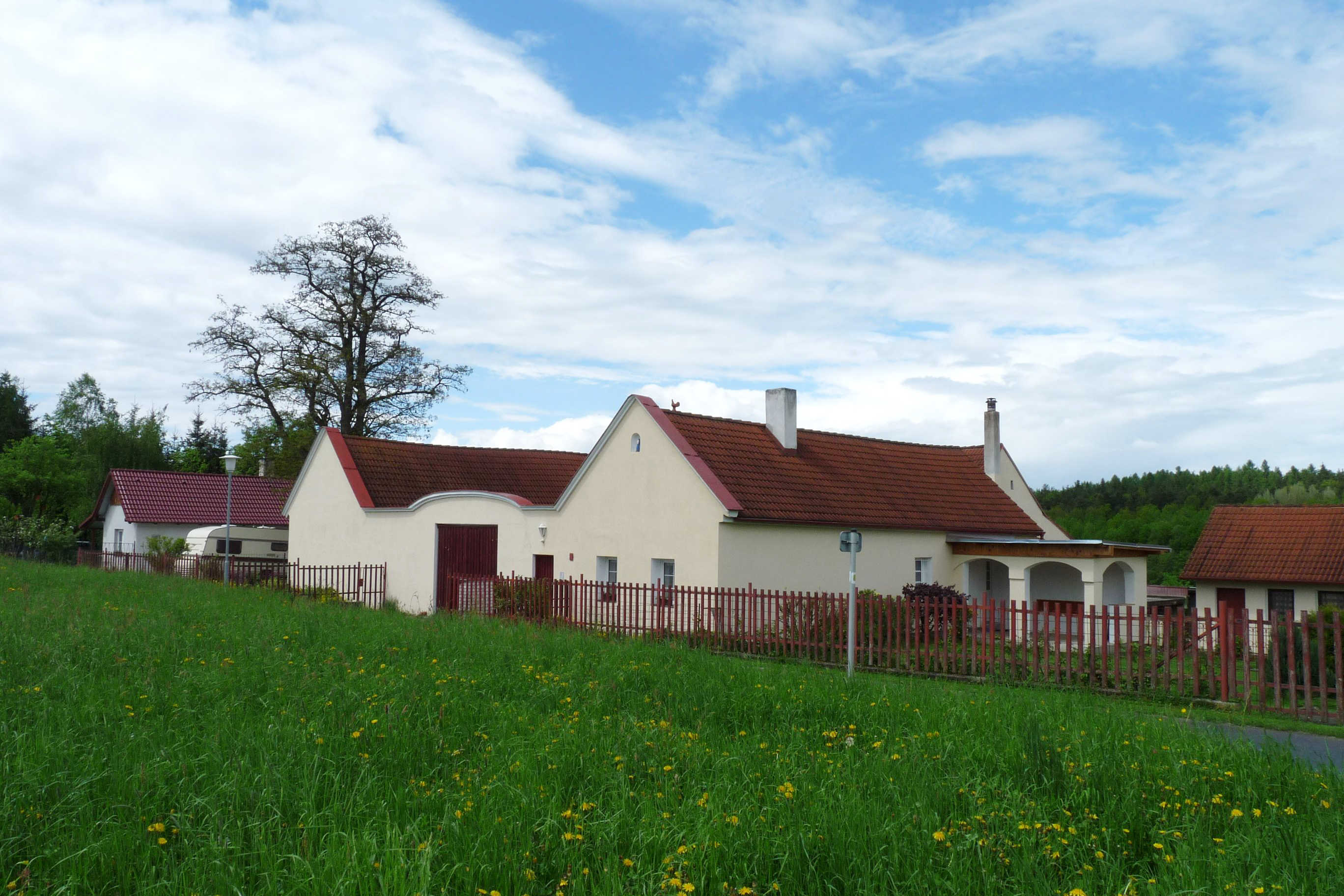 House No 8 in the village of Rančice, České Budějovice District, South Bohemian Region, Czech Republic.